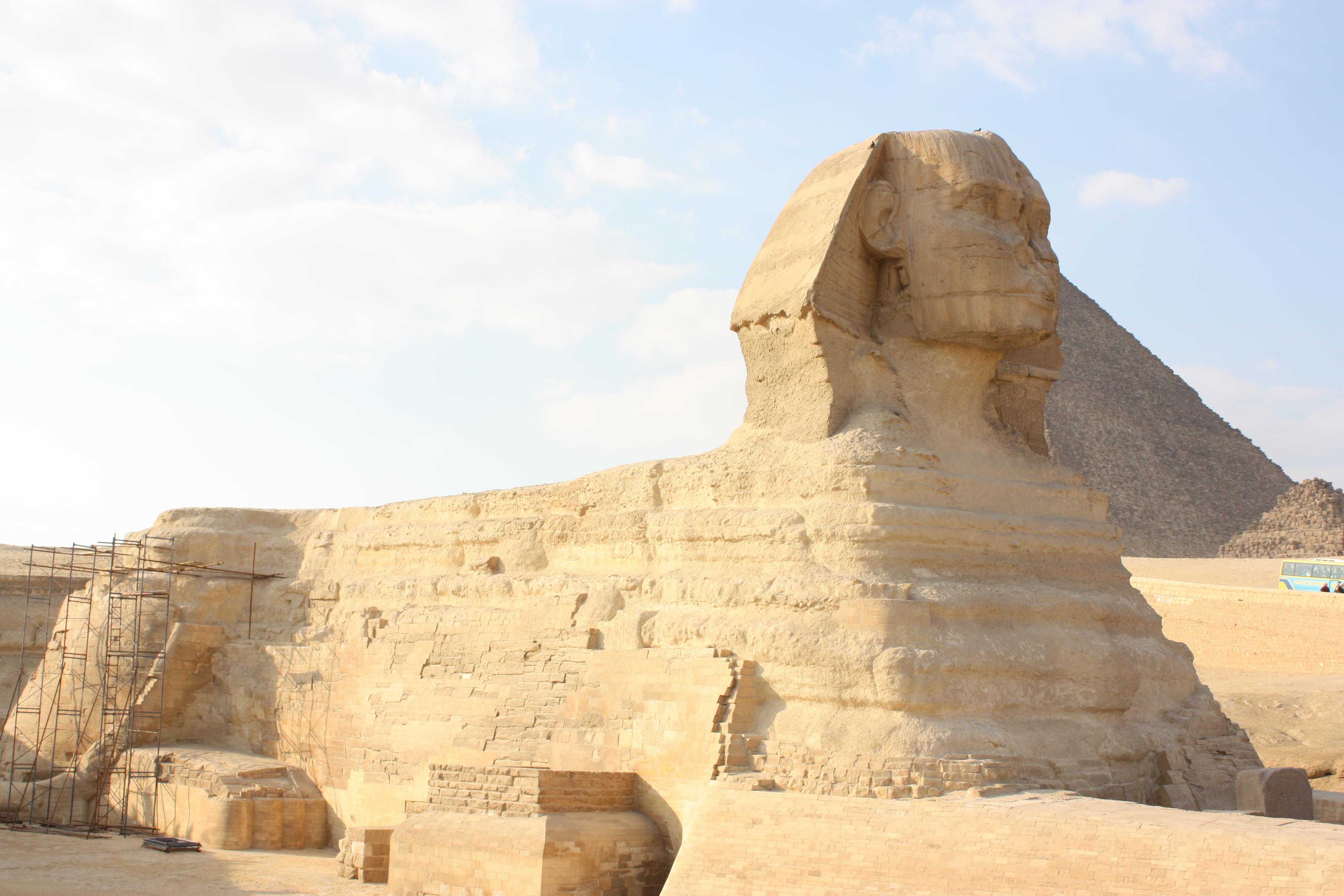 Great Sphinx of Giza.